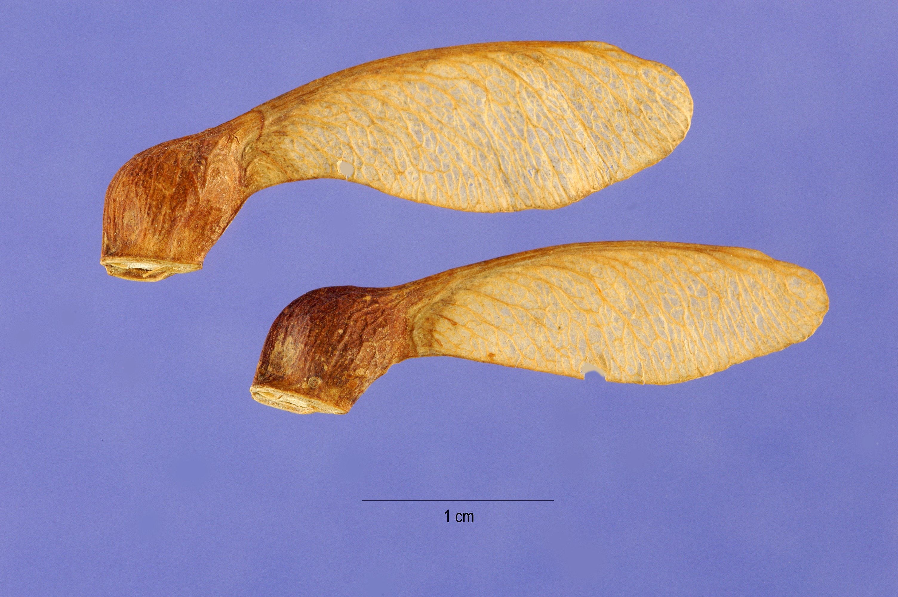 Black Maple. Seeds. Pennsylvania, USA.